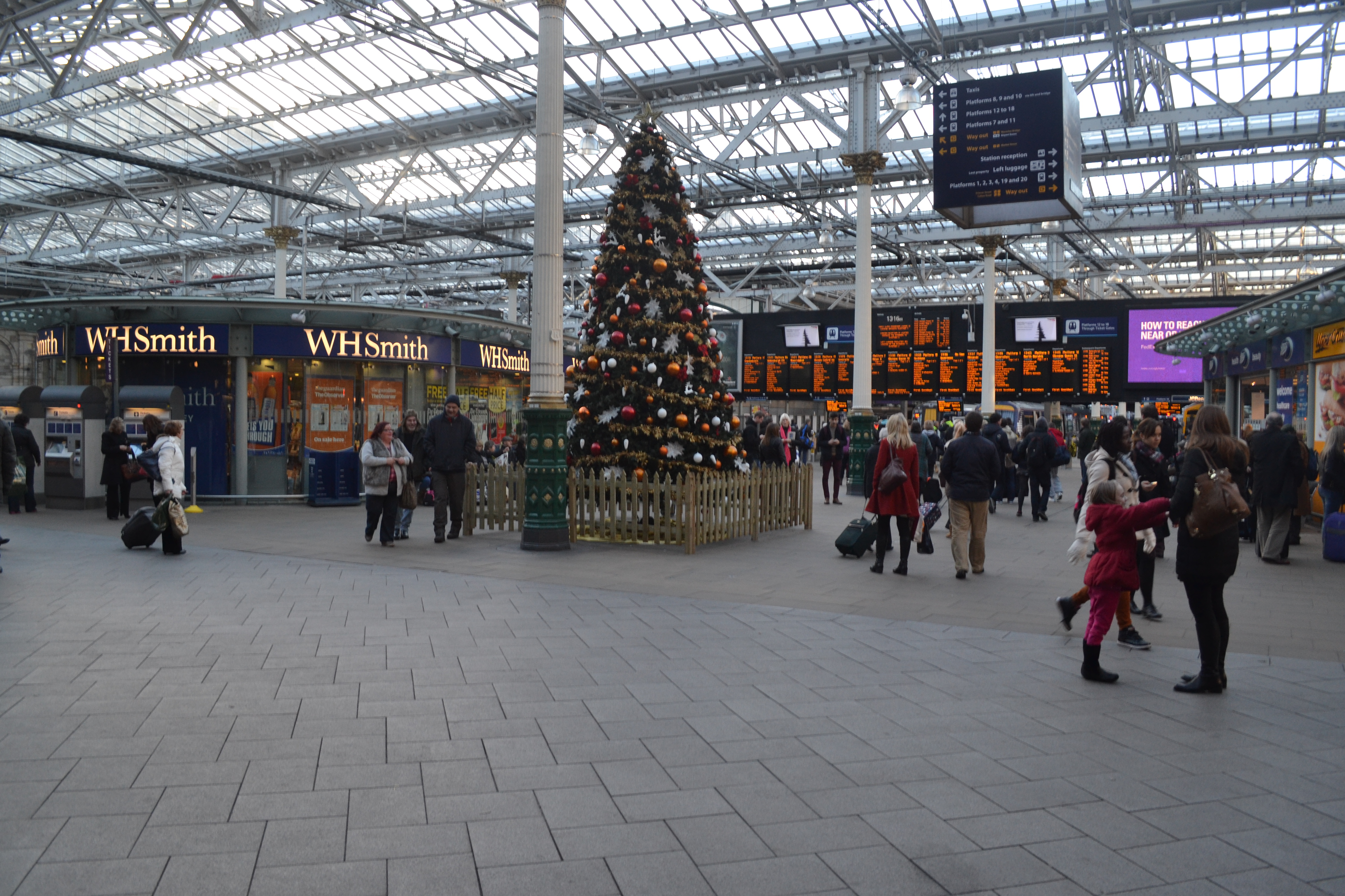 Edinburgh Waverley railway station (2)